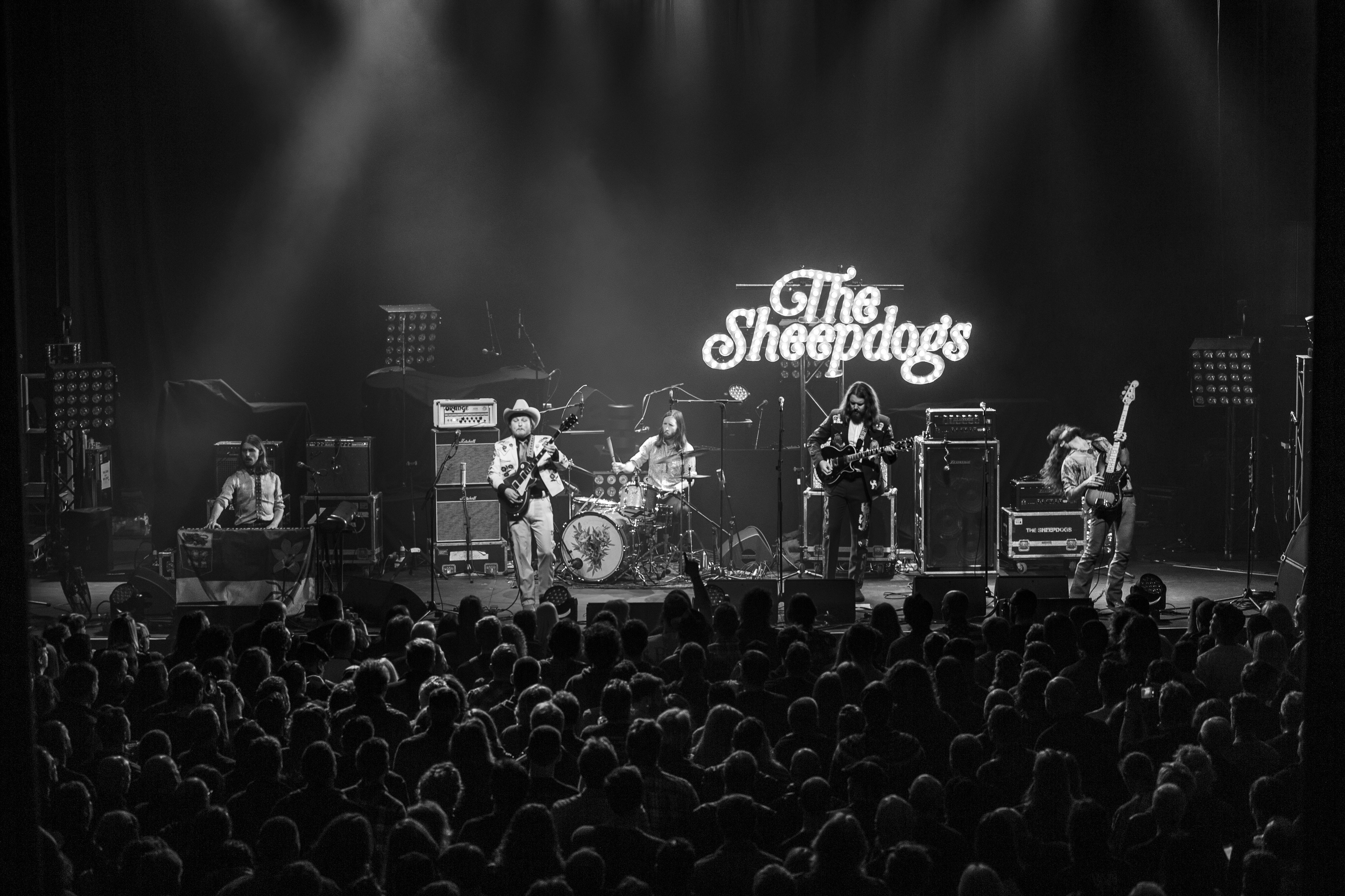 The Sheepdogs live on stage in 2018